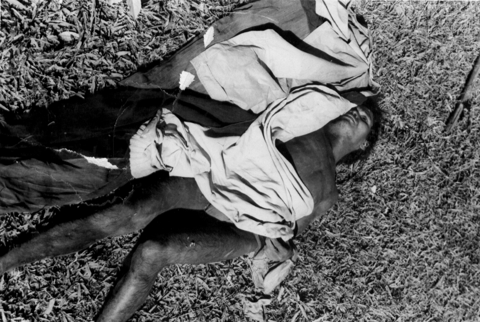 Corpse of a Montagnard civilian killed by the Viet Cong at the hamlet of Dak Son, in Vietnam's Central Highlands on December 5, 1967.